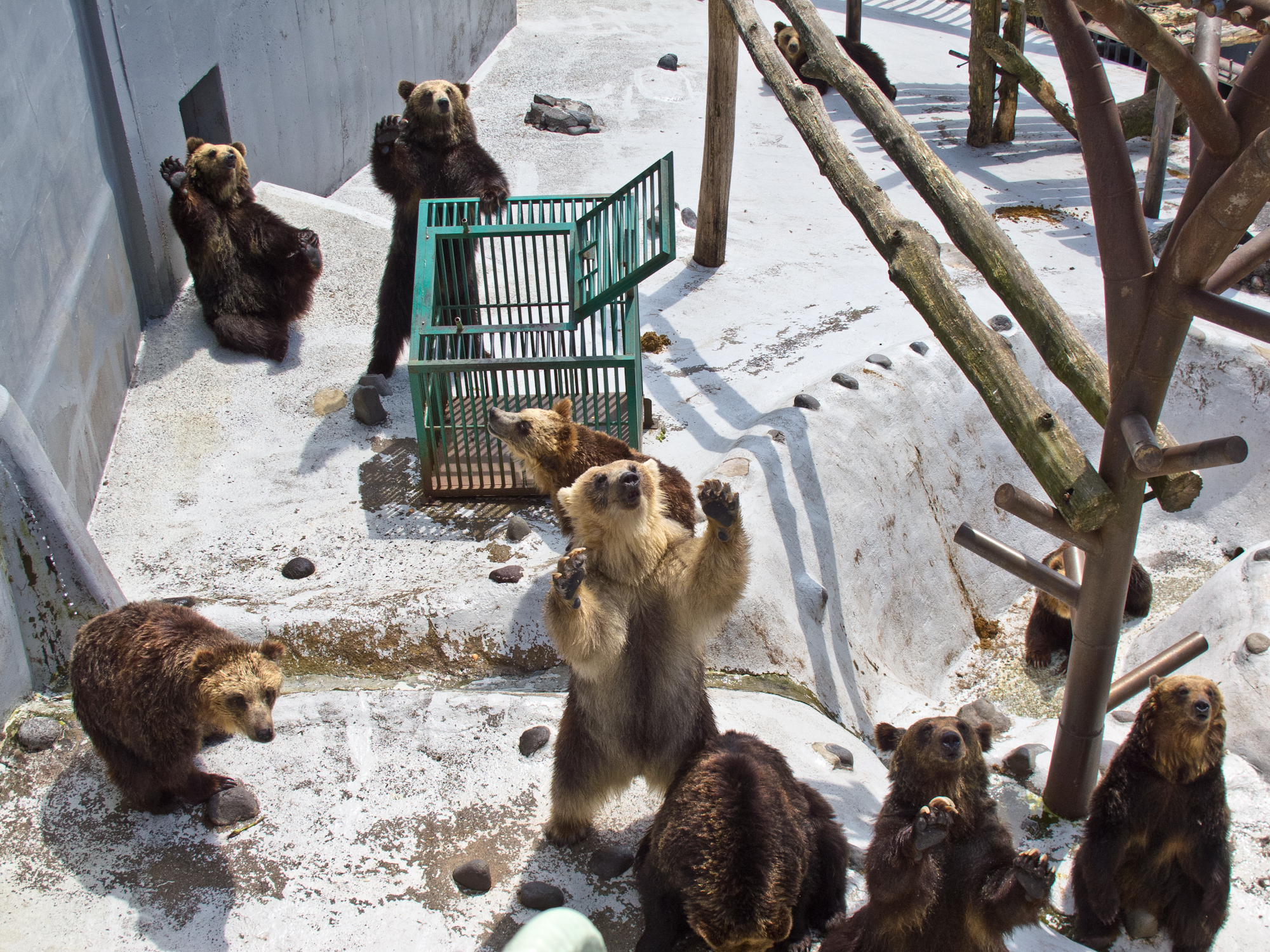 Noboribetsu bear park. Noboribetsu, Hokkaido, Japan.